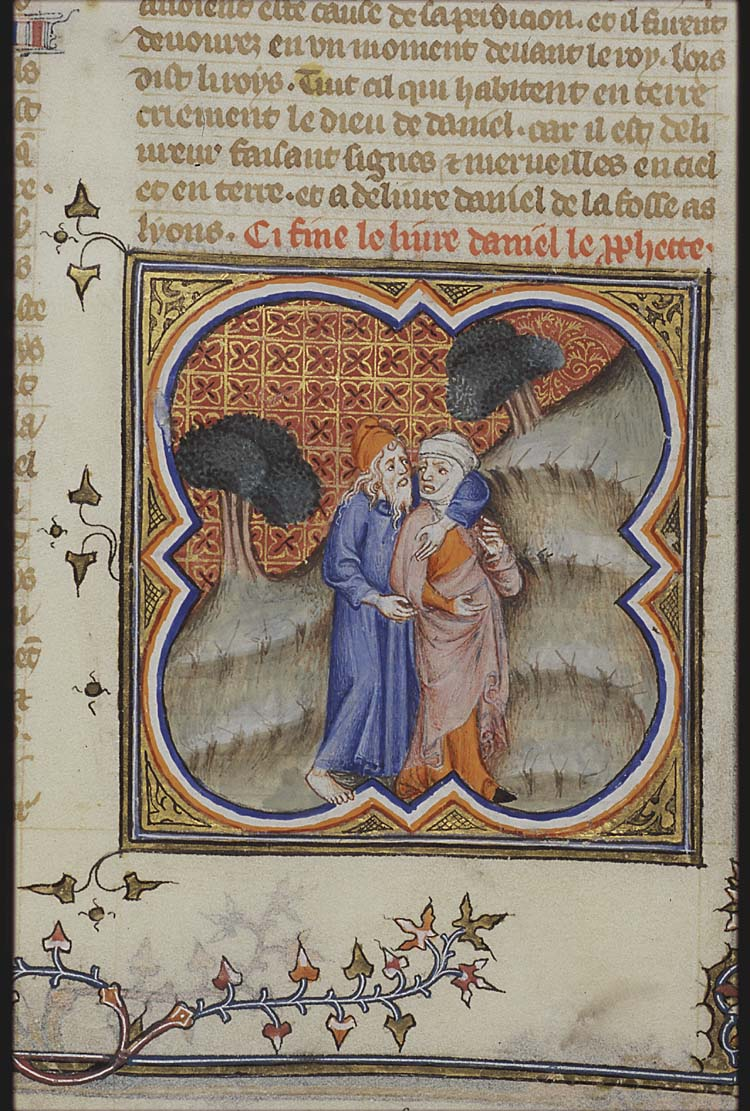 Hosea and Gomer, from the Bible Historiale. Den Haag, MMW, 10 B 23 426r